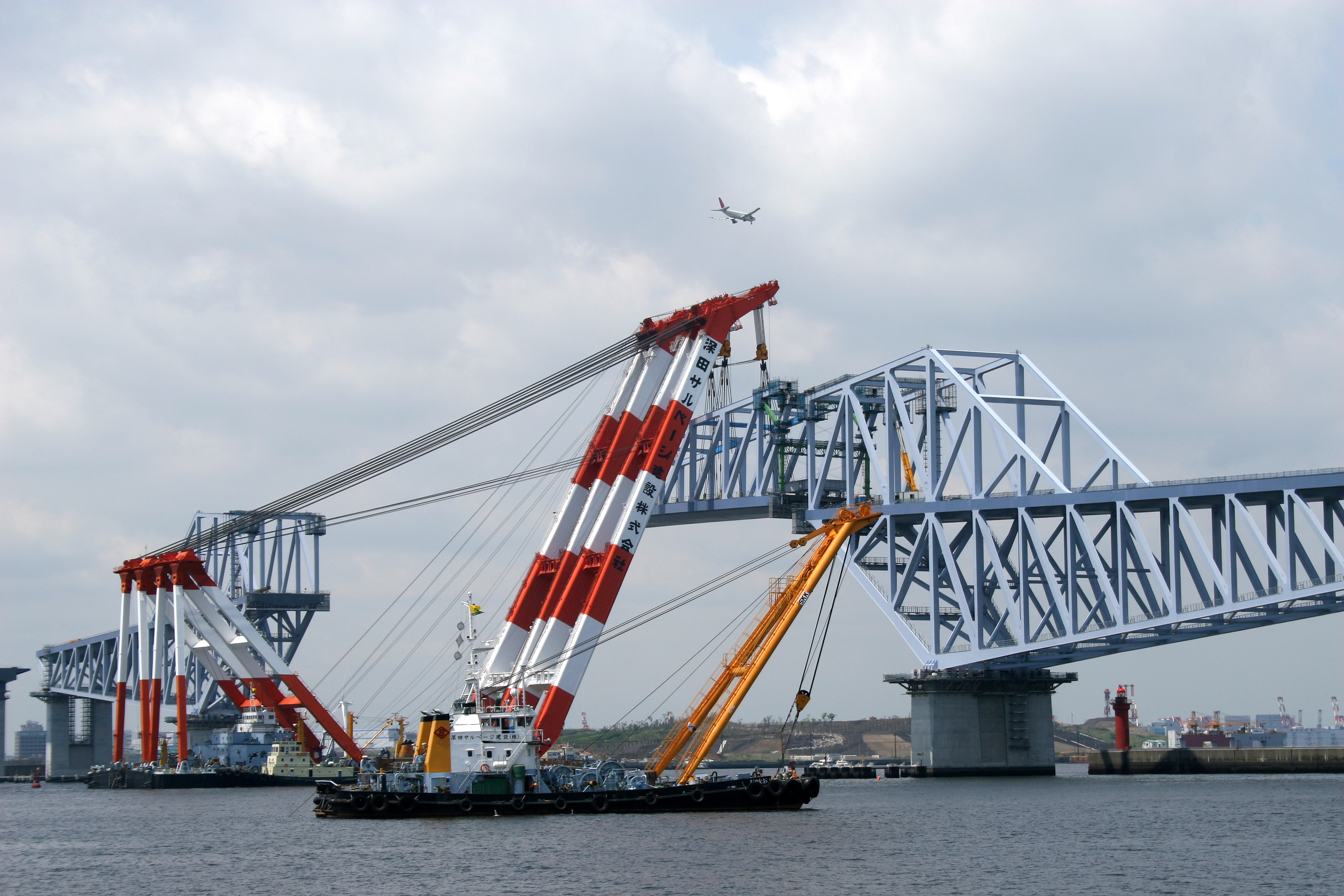 Tokyo Gate Bridge (then provisionally called Tokyo-ko Rinkai Bridge) under construction, as seen from Wakasu Kaihin Park in Koto, Tokyo. Two vessels are pictured: crane vessel Musashi (larger one with arms in red and white) and anchor handling vessel Oyashio (smaller one with arms in yellow), both belonging to Fukada Salvage & Marine Works Co., Ltd.